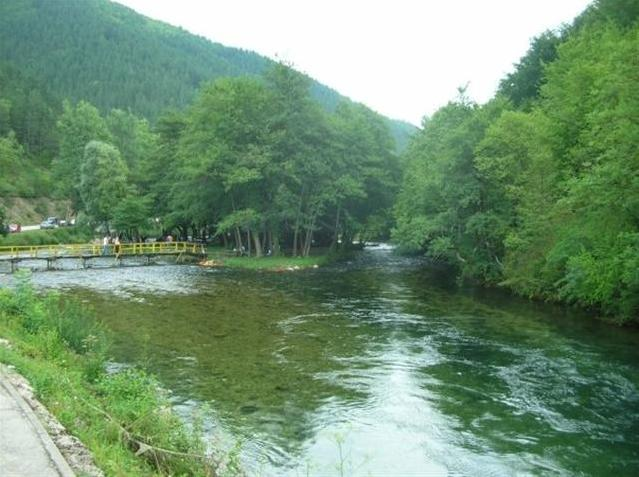 River Sokočnica